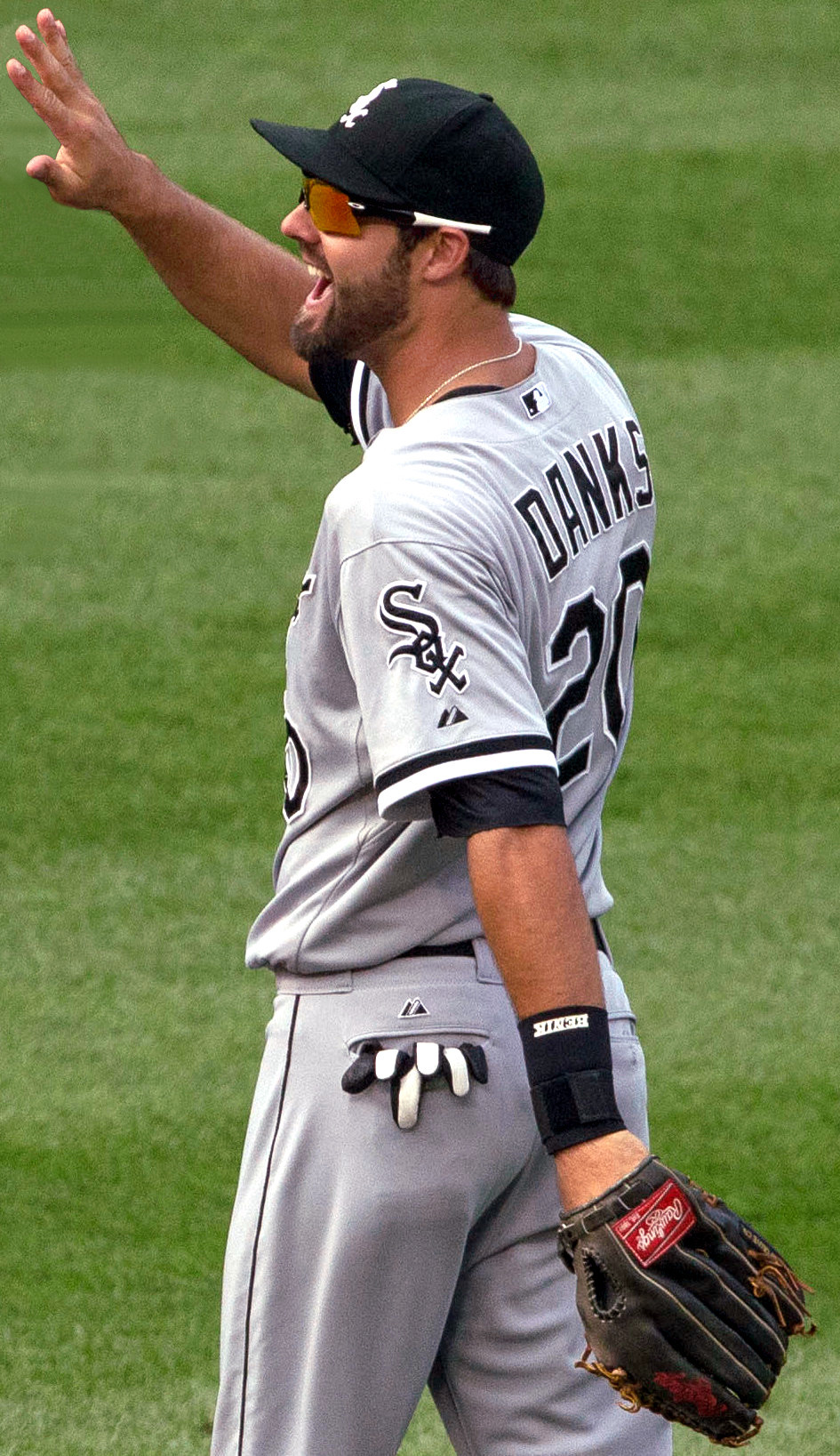 Alejandro de Aza and Jordan Danks of the Chicago White Sox in the outfield at Camden Yards in Baltimore in 2013